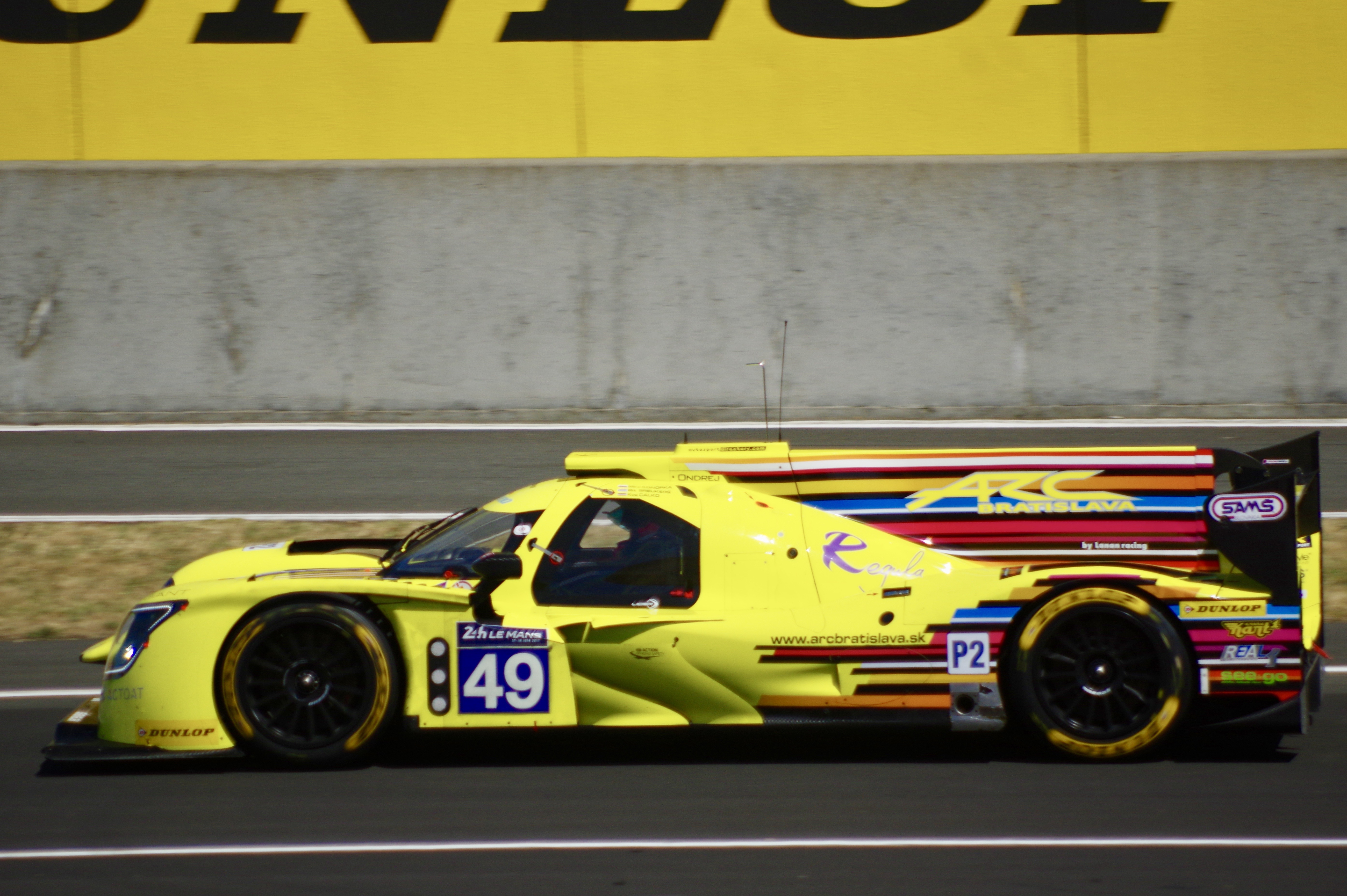 ARC Bratislava's Ligier JS P217 Gibson Driven by Miroslav Konopka, Konstantins Calko and Rik Breukers at the 2017 24 Hours of Le Mans